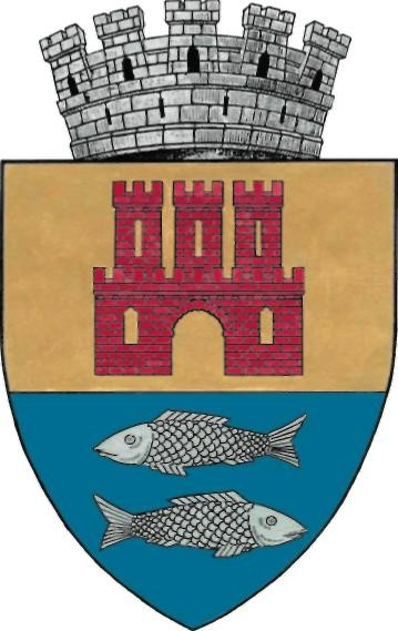 Coat of Arms of the city of Făgăraș, Braşov County, Romania